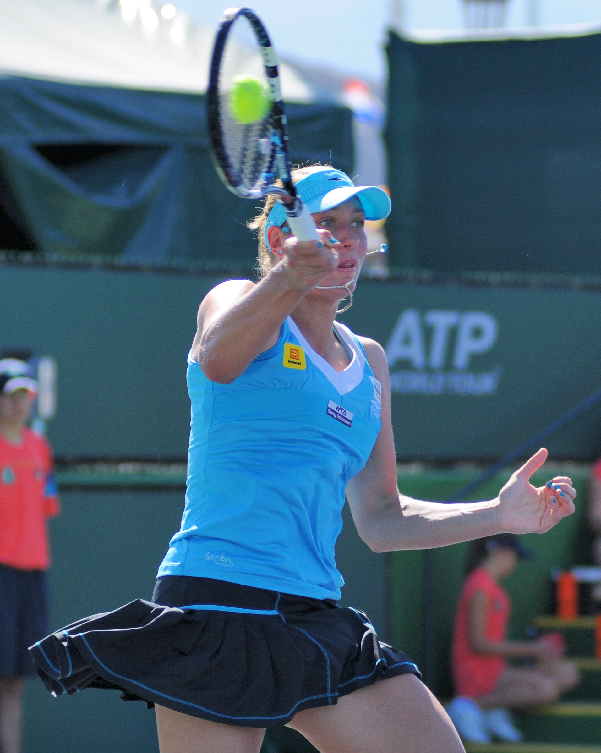 Wickmayer hitting a forehand at the 2012 BNP Paribas Open